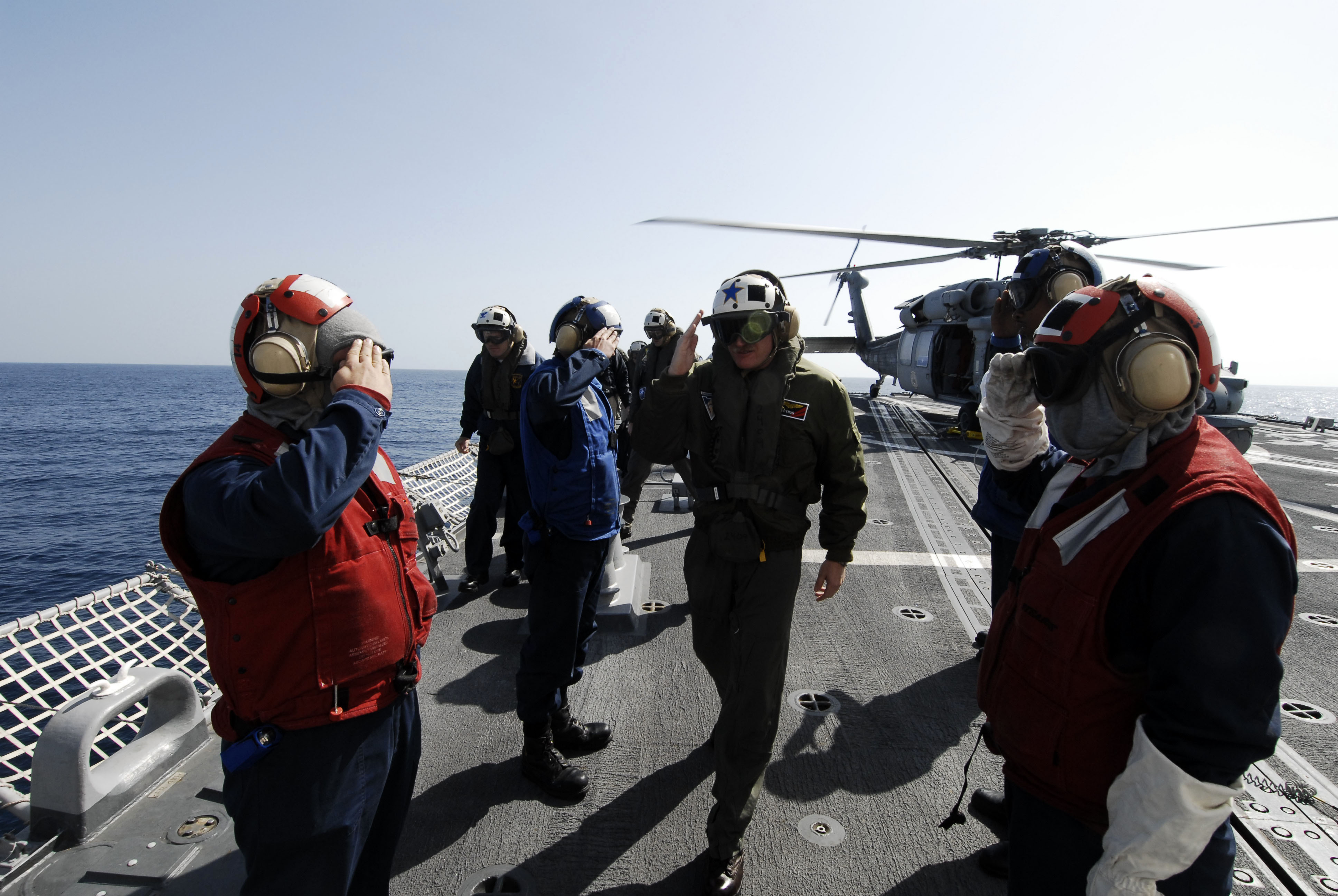 PACIFIC OCEAN (Oct. 10, 2008) Rear Adm. Mark Vance, commander, Carrier Strike Group Three (CSG 3), is rendered sideboys honor during his visit aboard the Arleigh Burke-class guided-missile destroyer USS Kidd (DDG 100). CSG-3 is embarked aboard the Nimitz-class aircraft carrier USS John C. Stennis (CVN 74). Stennis and Kidd are conducting pre-deployment exercises off the coast of Southern California. (U.S. Navy photo by Mass Communication Specialist 1st Class Dennis Cantrell/Released)